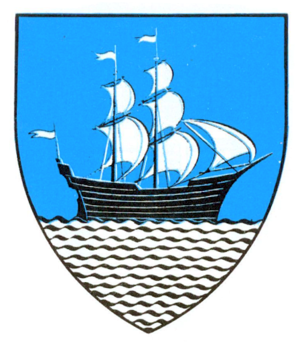 Interwar coat of arms of Brăila County, Kingdom of Romania.